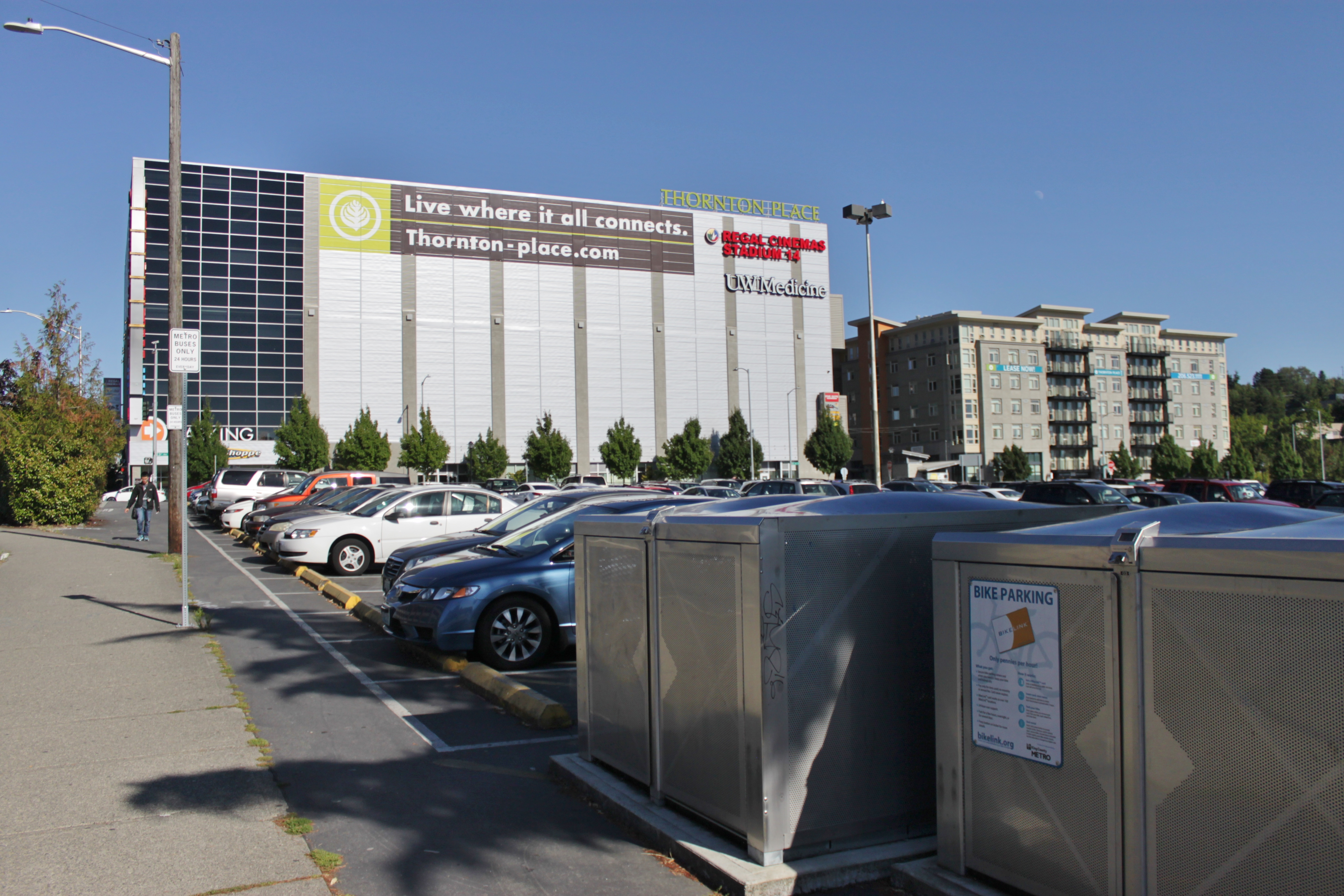 Thornton Place and bike parking at Northgate TC